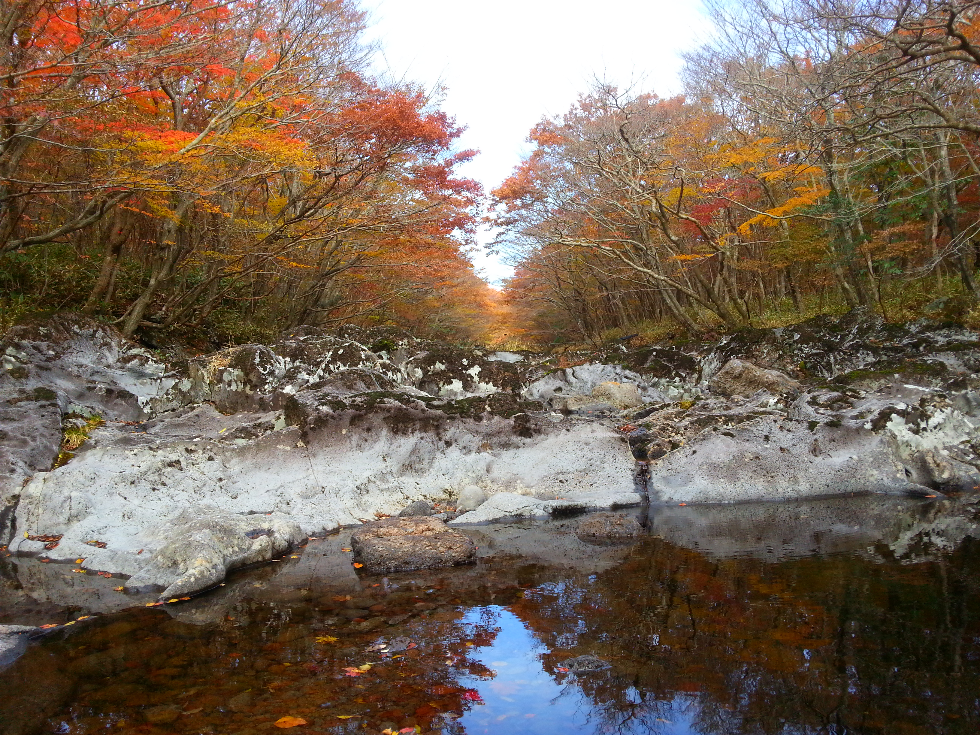 It is the autumn of Mt. Halla.